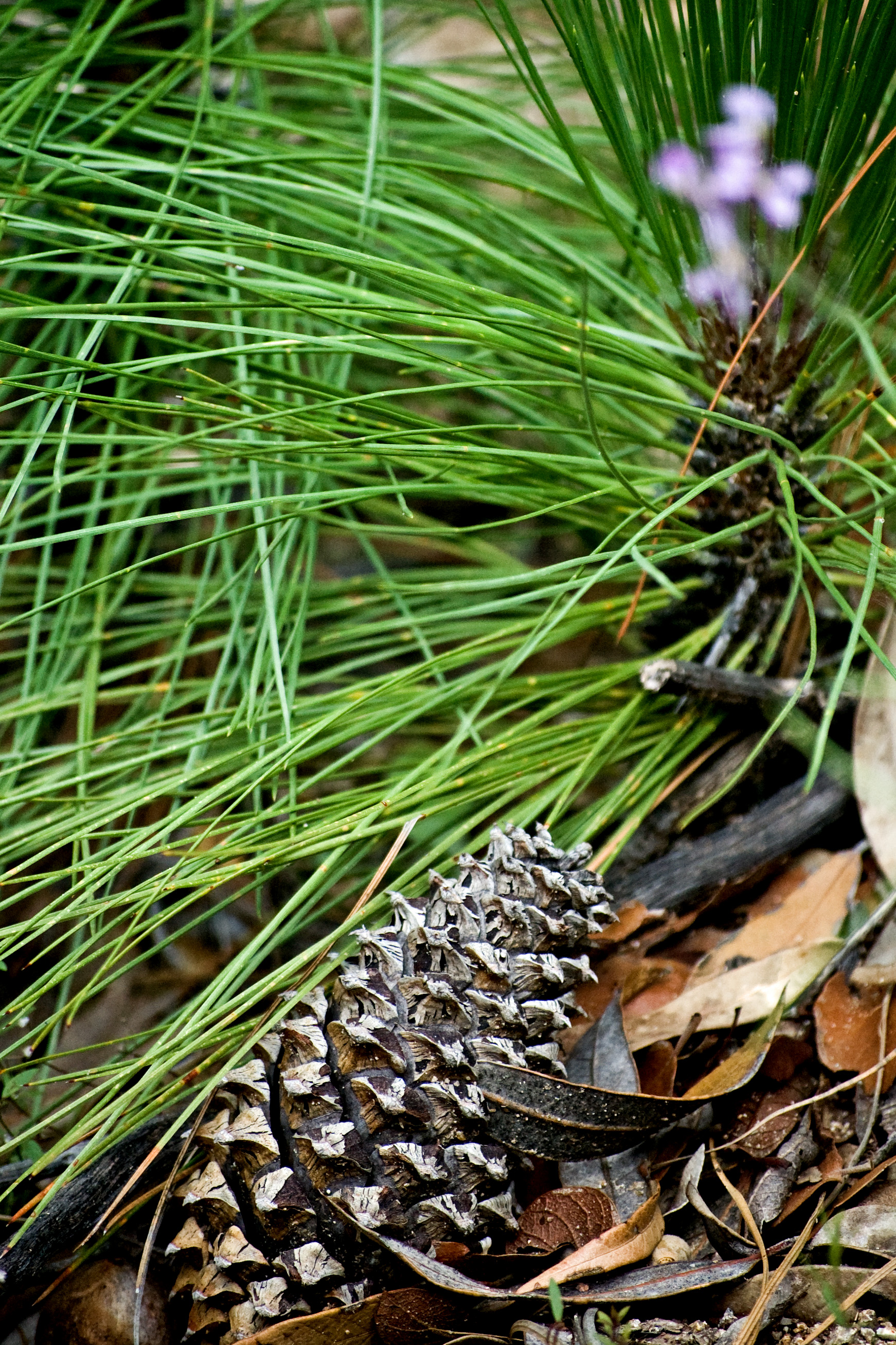 Pinus engelmannii seedling and old cone, Madera Canyon, Coronado National Forest, Arizona.